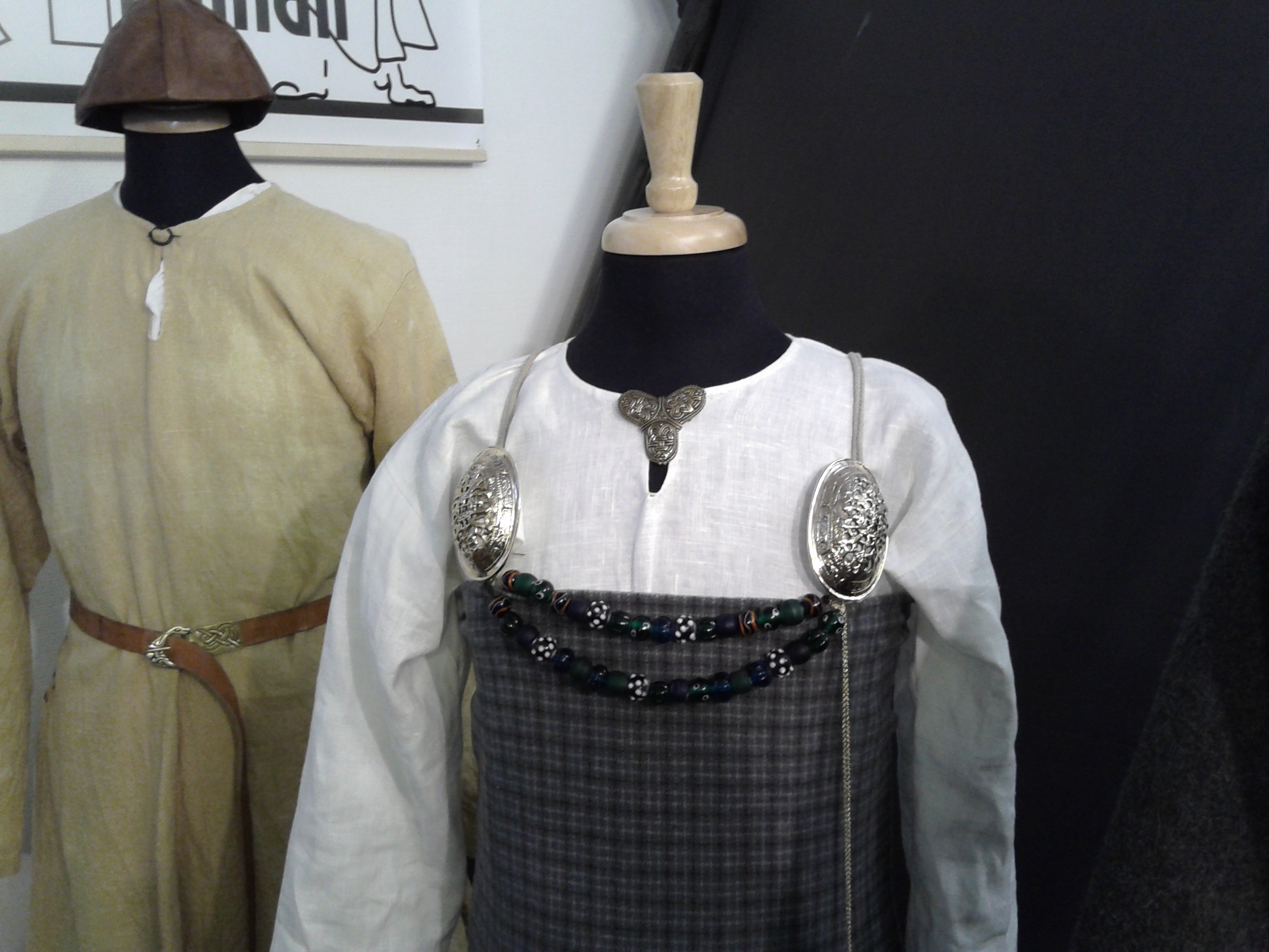 Replicas of Viking age clothes made by Gert Alenhall, specialized on ancient clothes, on exhibit in Hoga, Tjörn in Sweden Spring 2012. From left to right: common man's clothes, woman's dress with close up on brooches, glass bead necklace and silver trefoil brooch. The material in the man's clothes is linen, the woman's dress is made from sheep's wool.